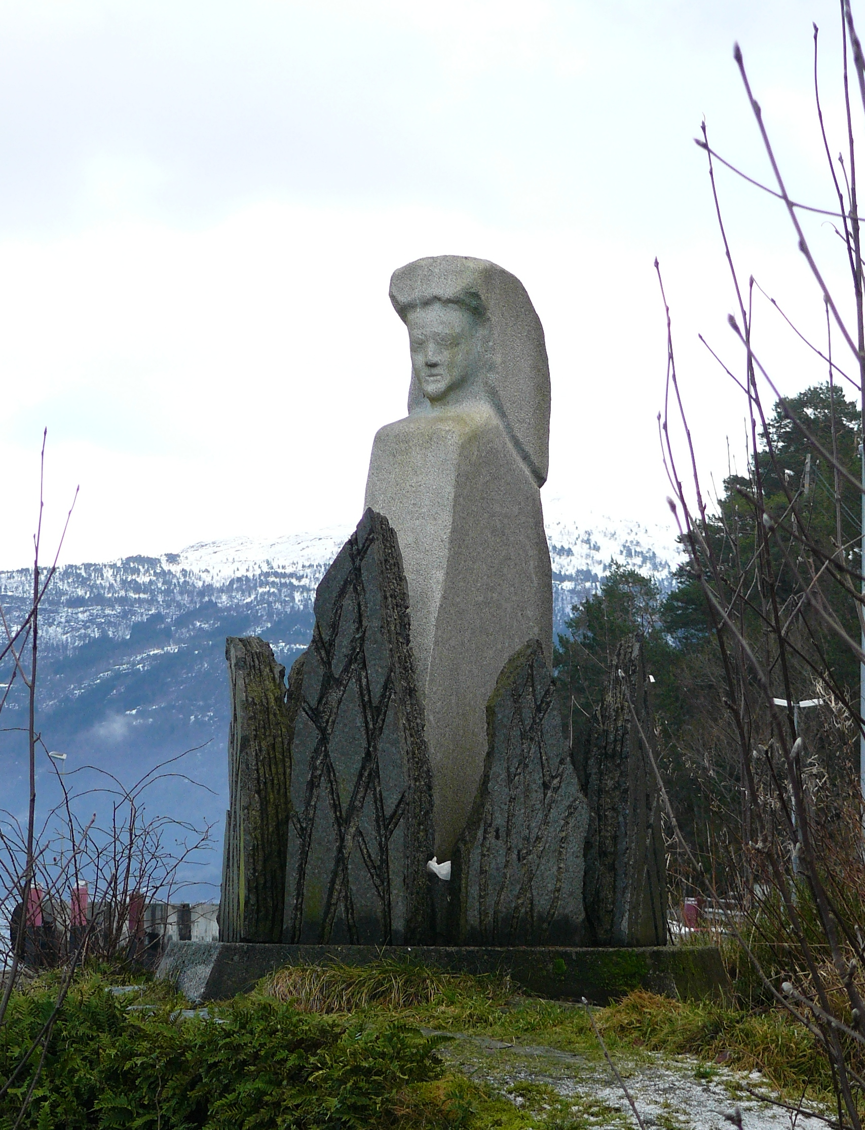 Witchmonument at Anda, in Gloppen, Norway. In memory of the Witch-hunt, and burning of women in the area